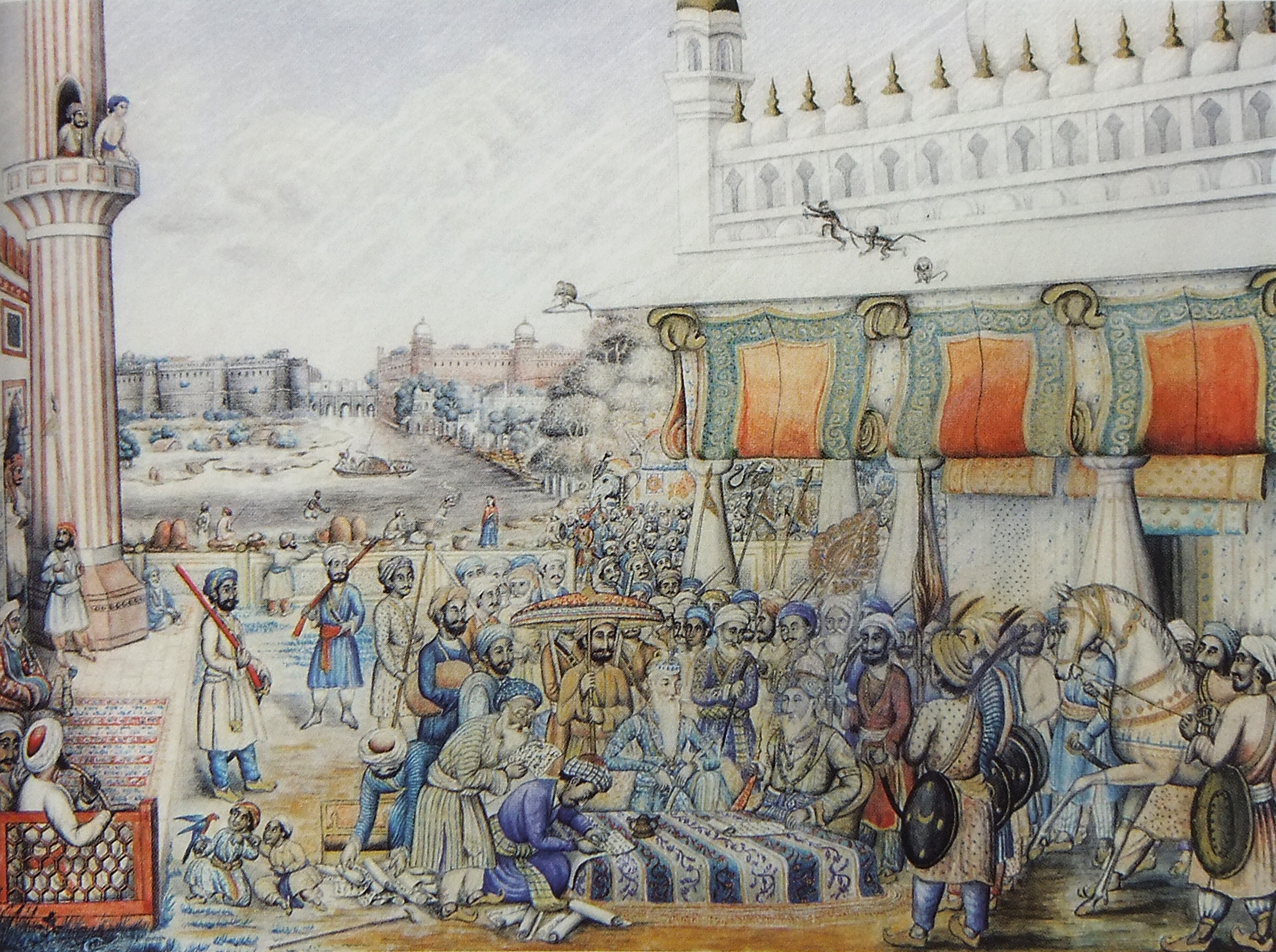 "Maharaja Ranjit Singh with Emperor Akbar Shah II" 1842 Watercolour on paper A posthumous painting of Maharaja Ranjit Singh meeting with the Mughal Emperor Akbar II to sign treaties.